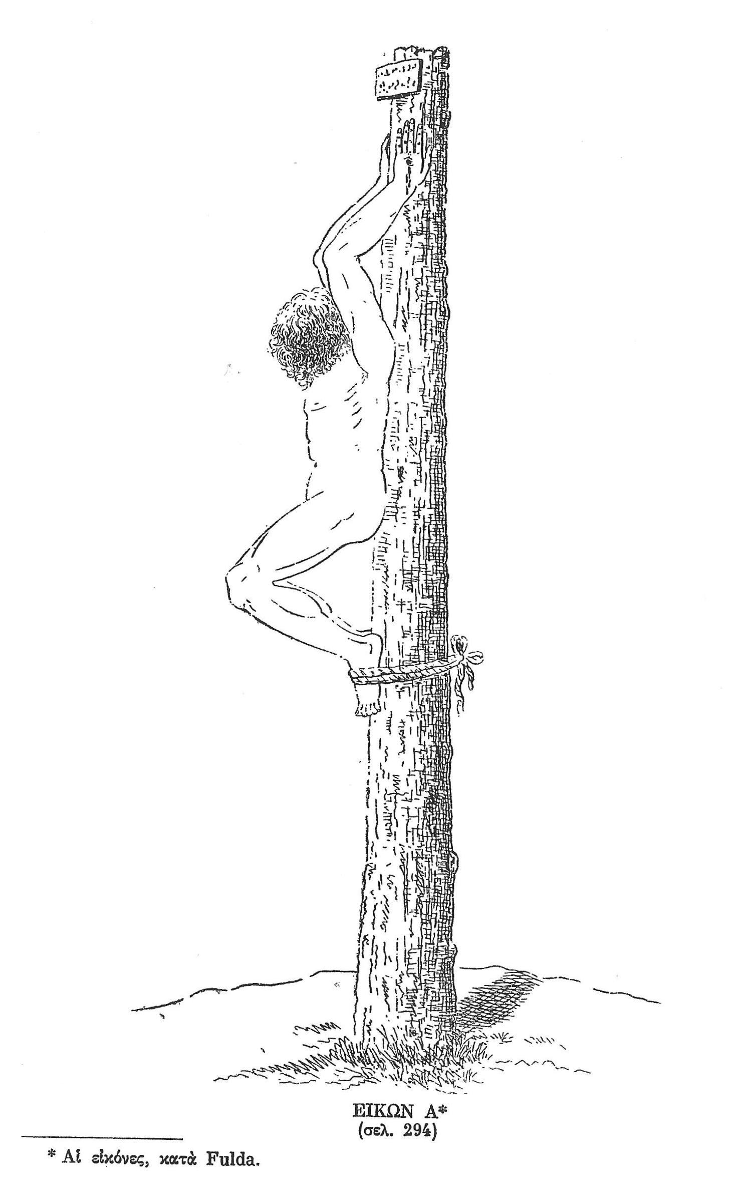 Reproduction in Leonidas Filippidis (Λεωνίδας Φιλιππίδης), Ιστορία της Εποχής της Καινής Διαθήκης εξ απόψεως Παγκοσμίου και Πανθρησκειακής (Athens, 1958) p. 979 of the frontispiece of Hermann Fulda, Das Kreuz und die Kreuzigung. Breslau (now Wrocław), 1878, captioned: "Wahrscheinlichste Kreuzigung des Erlösers" (Likeliest Crucifixion of the Redeemer).